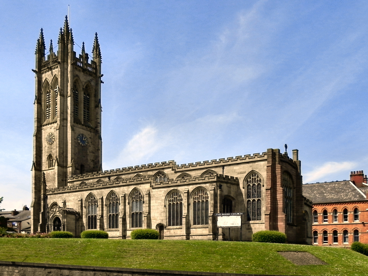 Photograph of St Michael's Church, Ashton-under-Lyne, Greater Manchester, England